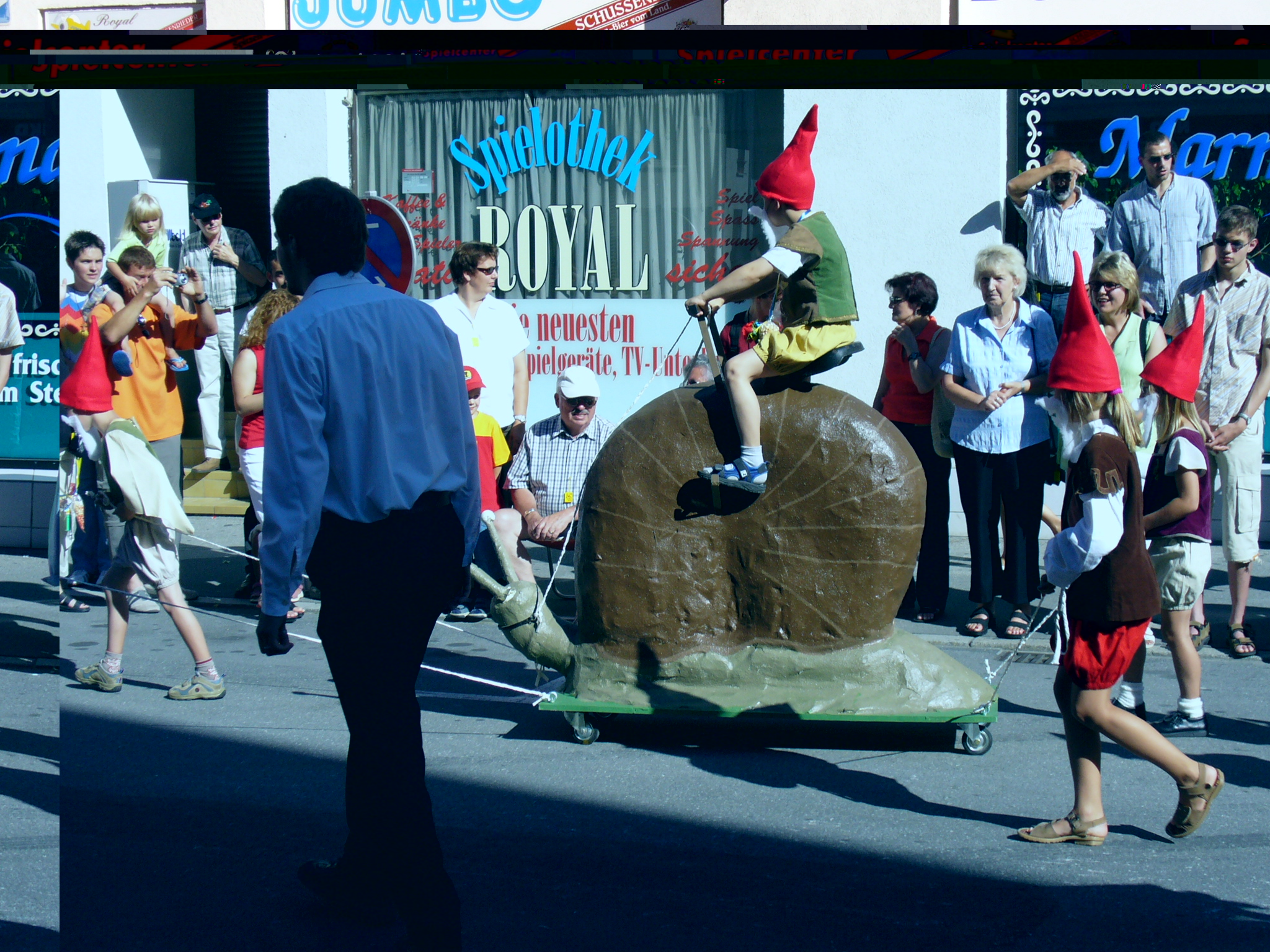 Schützenfest - Biberach an der Riß